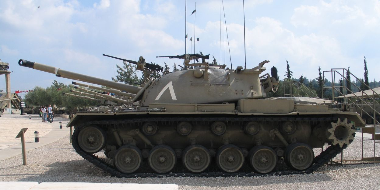 M48A3 Patton tank in Yad la-Shiryon Museum, Israel.